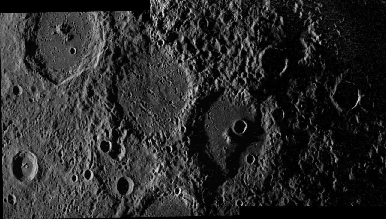 Mosaic of two Mariner 10 images showing Balagtas crater (right), Kenko crater (center) and most of Mahler crater (upper left) on Mercury. The images were taken within less than 1 minute of each other on Mariner 10's first flyby (of three) on March 29, 1974.